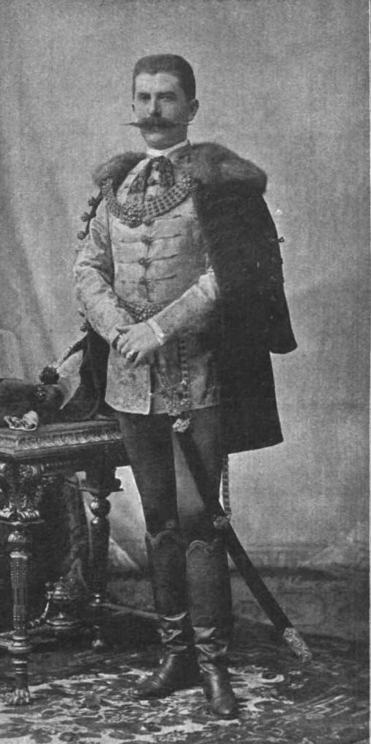 Pál Kiss